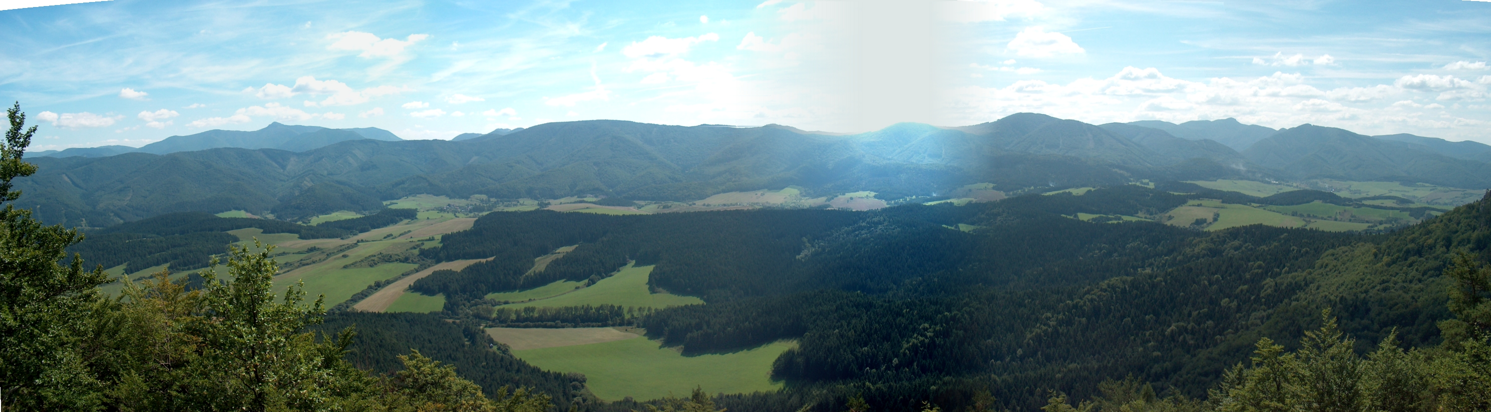 Panoramatic view of slovak village Celkova Lehota